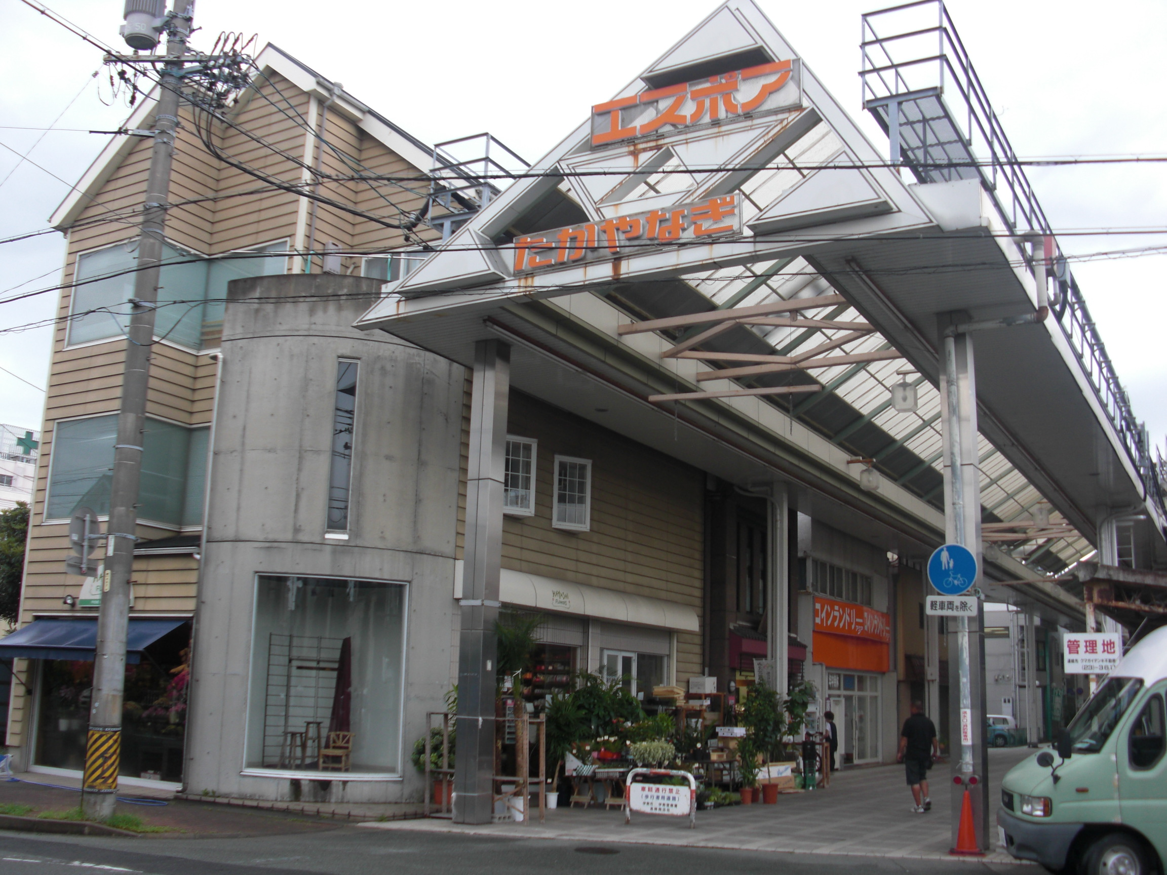 This is the Ise Takayanagi Shopping Street Arcade entrance, which is in Sone, Ise, Mie, Japan.